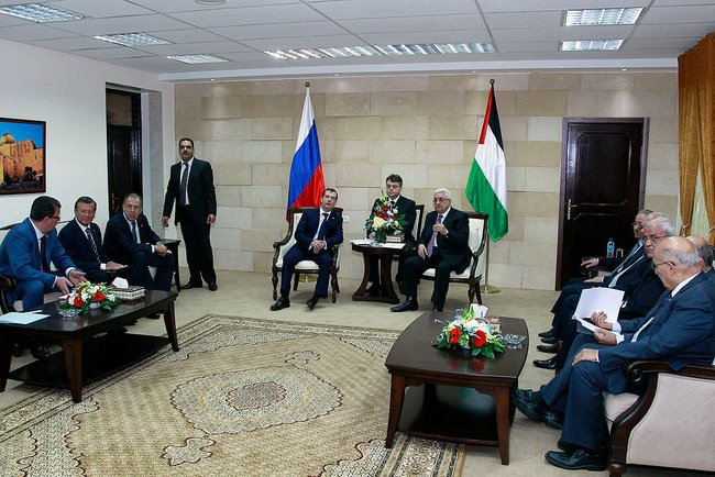 With President of Palestinian Authority Mahmoud Abbas.